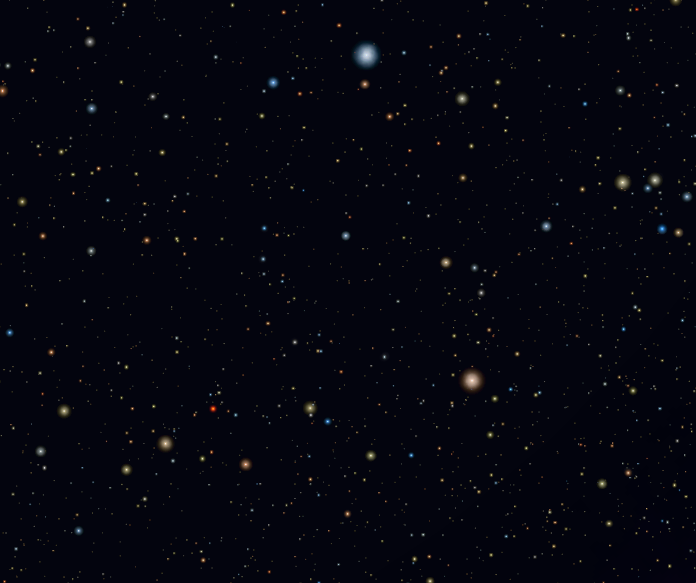 Image of Sextans